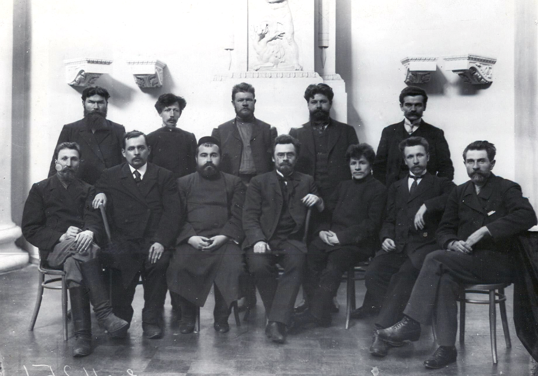 The members of the second Russian State Duma from Samara Governorate, 1907.